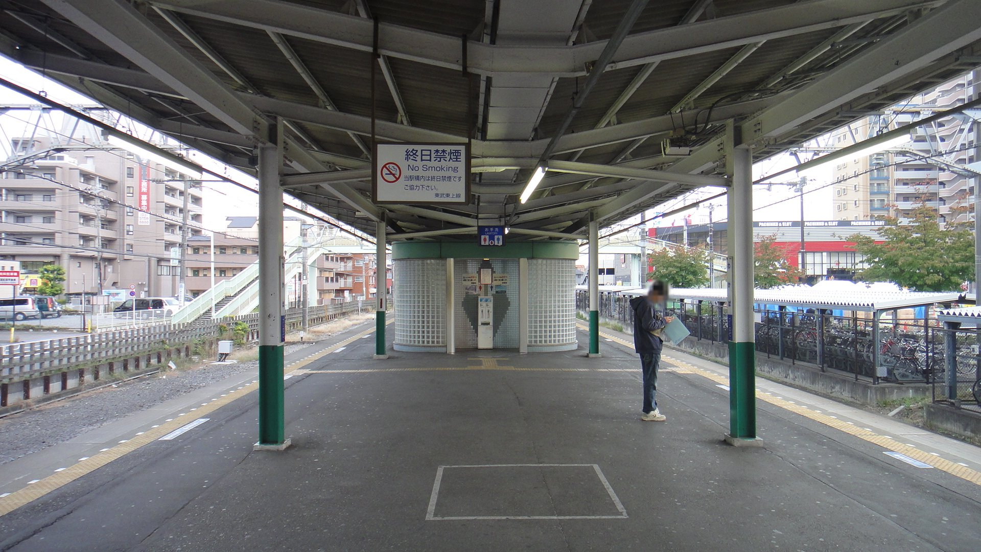 View of the platforms and toilet block at Wakaba Station on the Tobu Tojo Line in Saitama, Japan, looking toward Ikebukuro